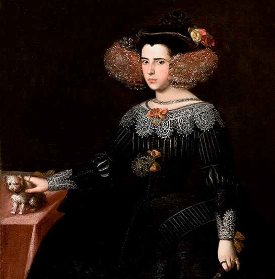 Luisa Maria Francisca de Guzmán y Sandoval (1613-1666), Queen Consort of Portugal by her marriage to John, Duke of Braganza (later, King John IV of Portugal).